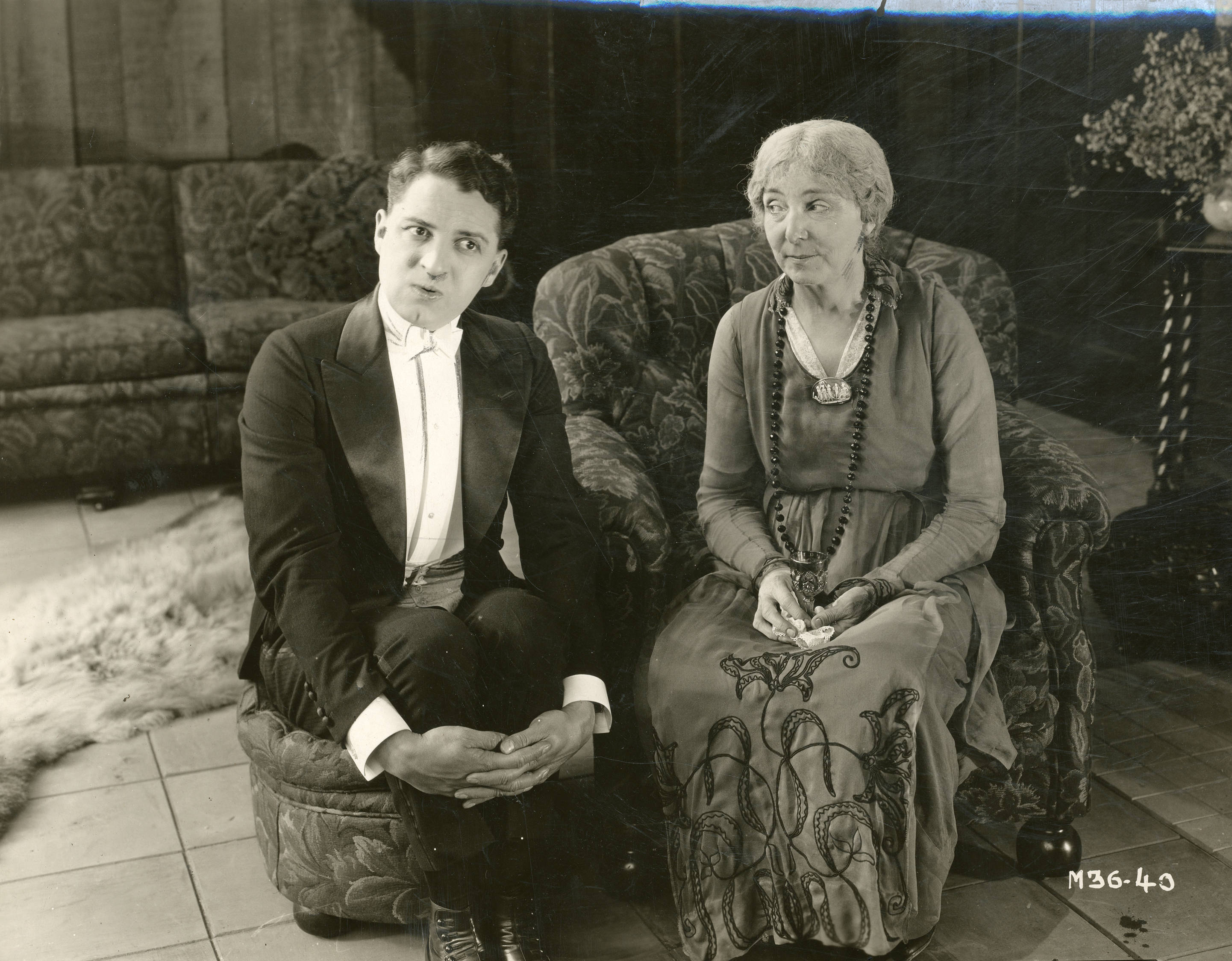 A scene from the American comedy film The Gypsy Trail, which played at the Mission Theater, Seattle. Includes Bryant Washburn and Edyth Chapman. Date stamped Dec. 7, 1918. Subjects: motion pictures, actors, actresses